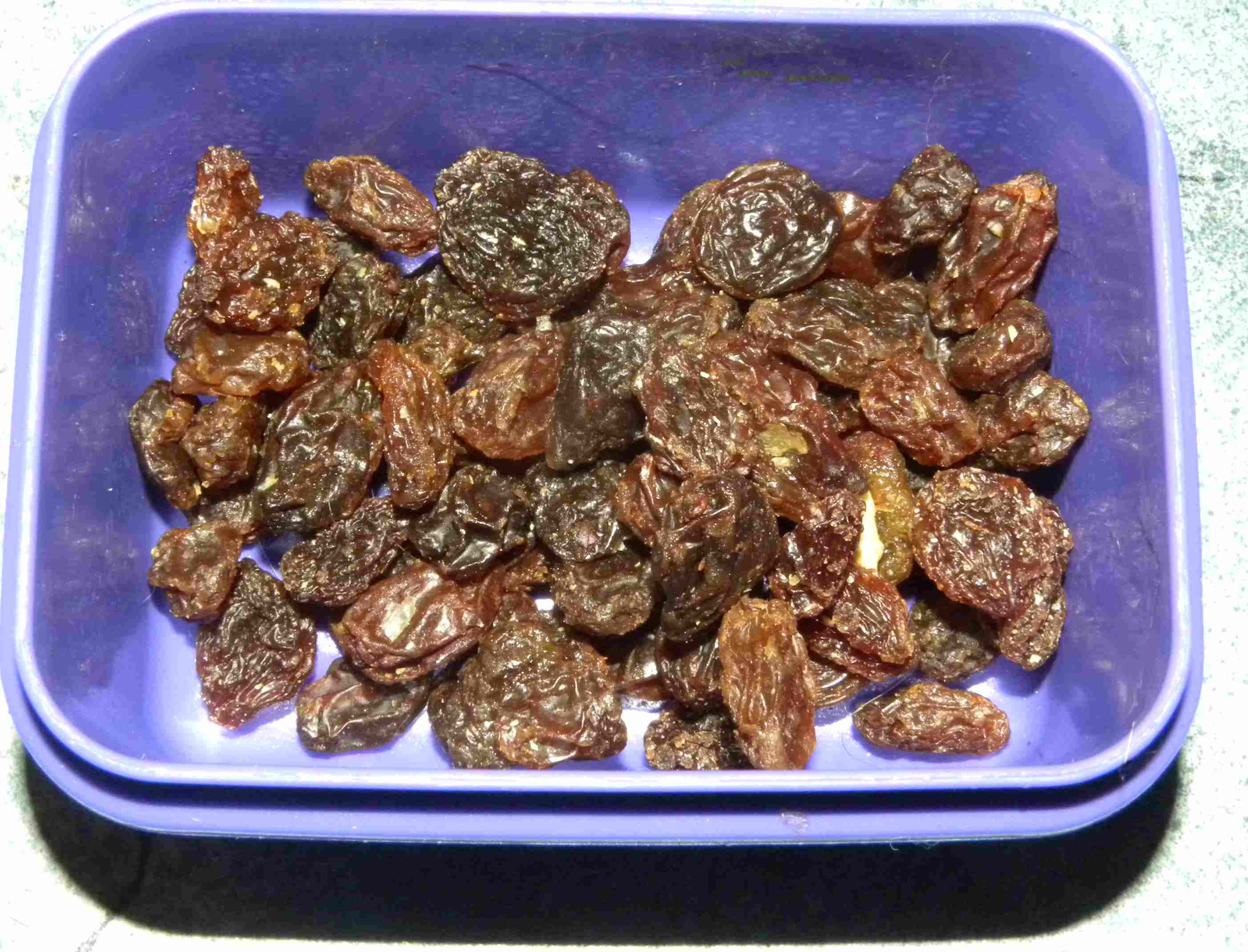 Container of sultanas